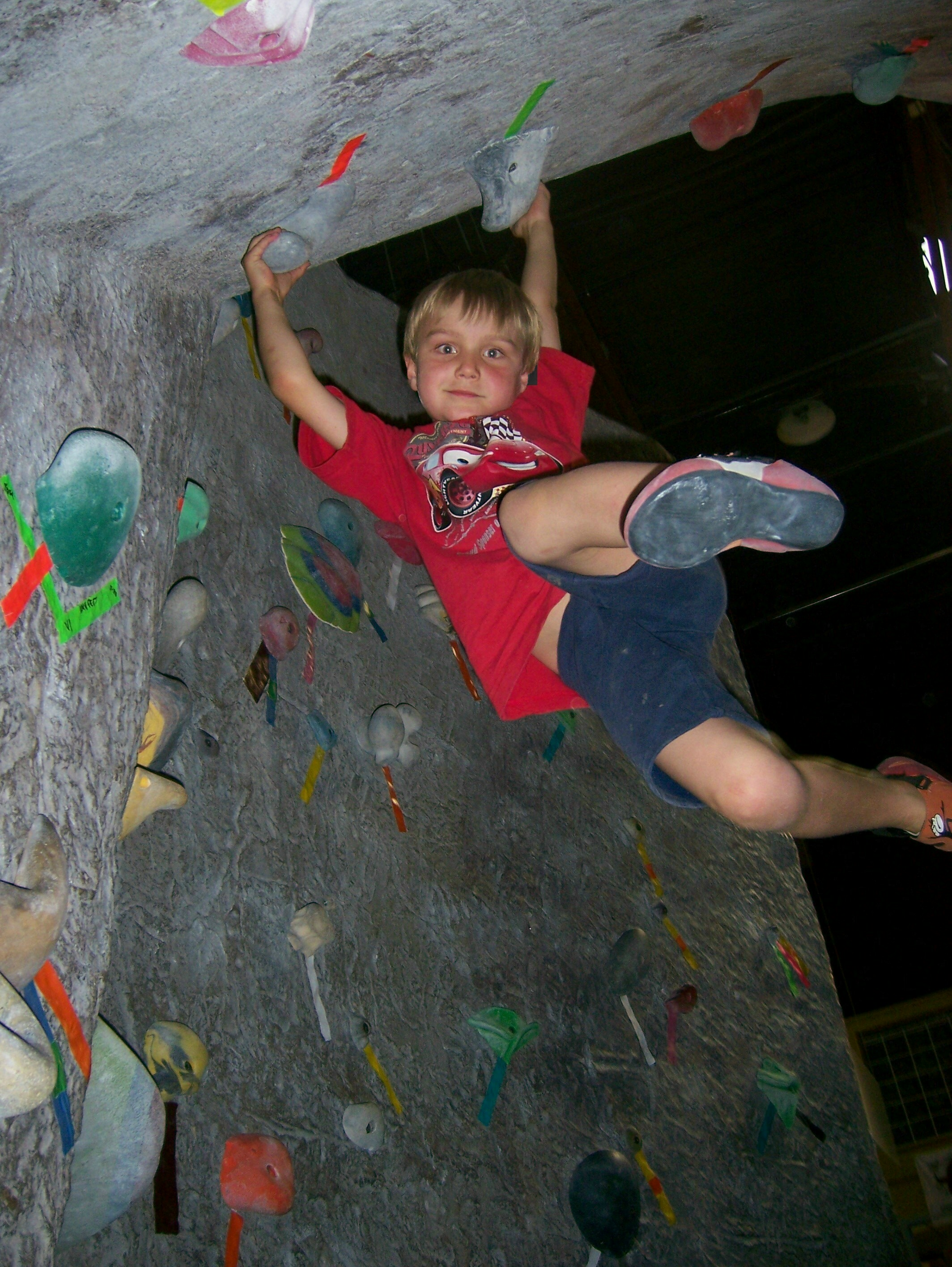 A five year old hanging around bouldering wall in Sportrock climbing gym in Alexandria, Virginia, USA